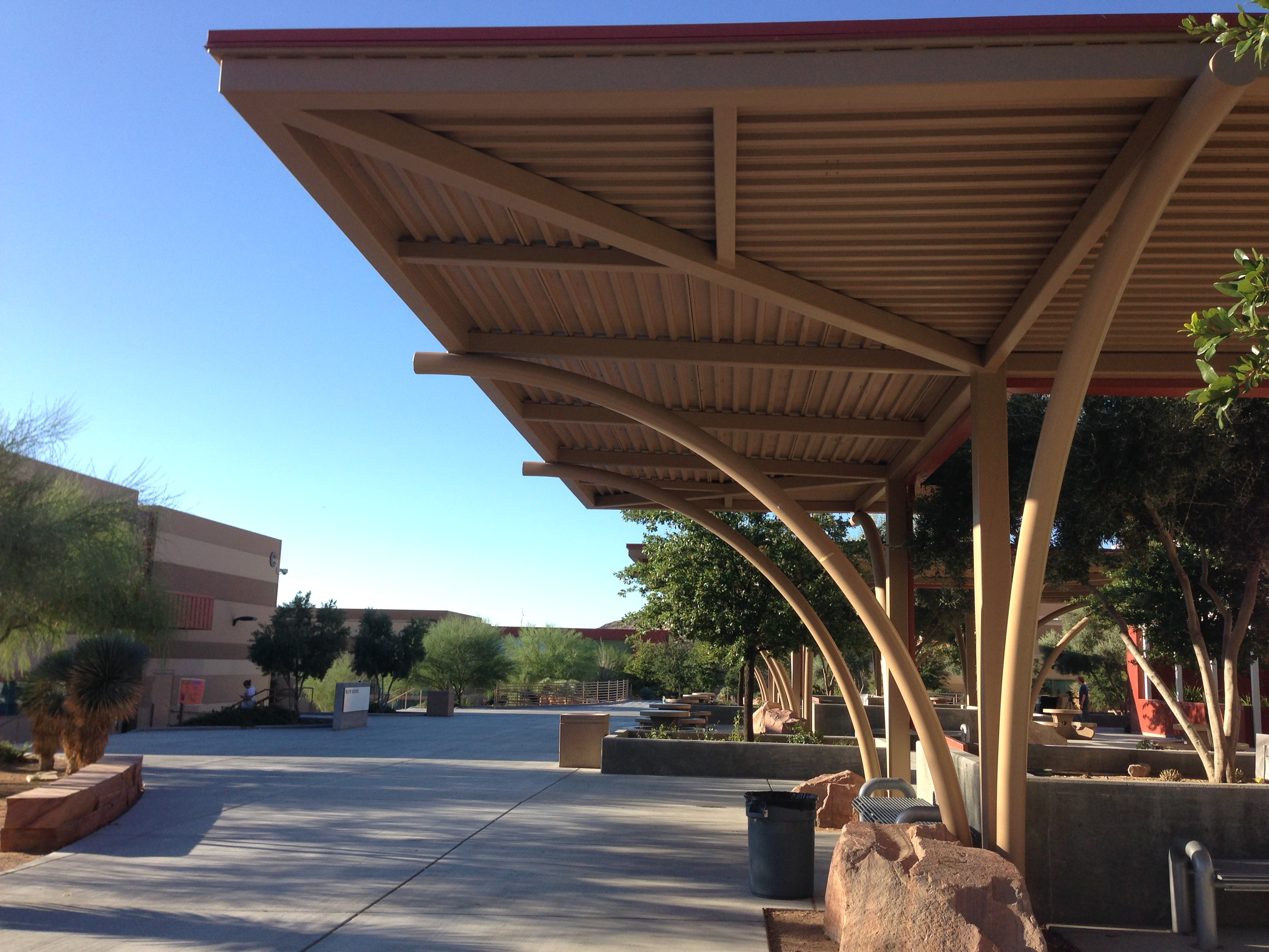 Campus of West Career & Technical Academy — in Las Vegas, Nevada.